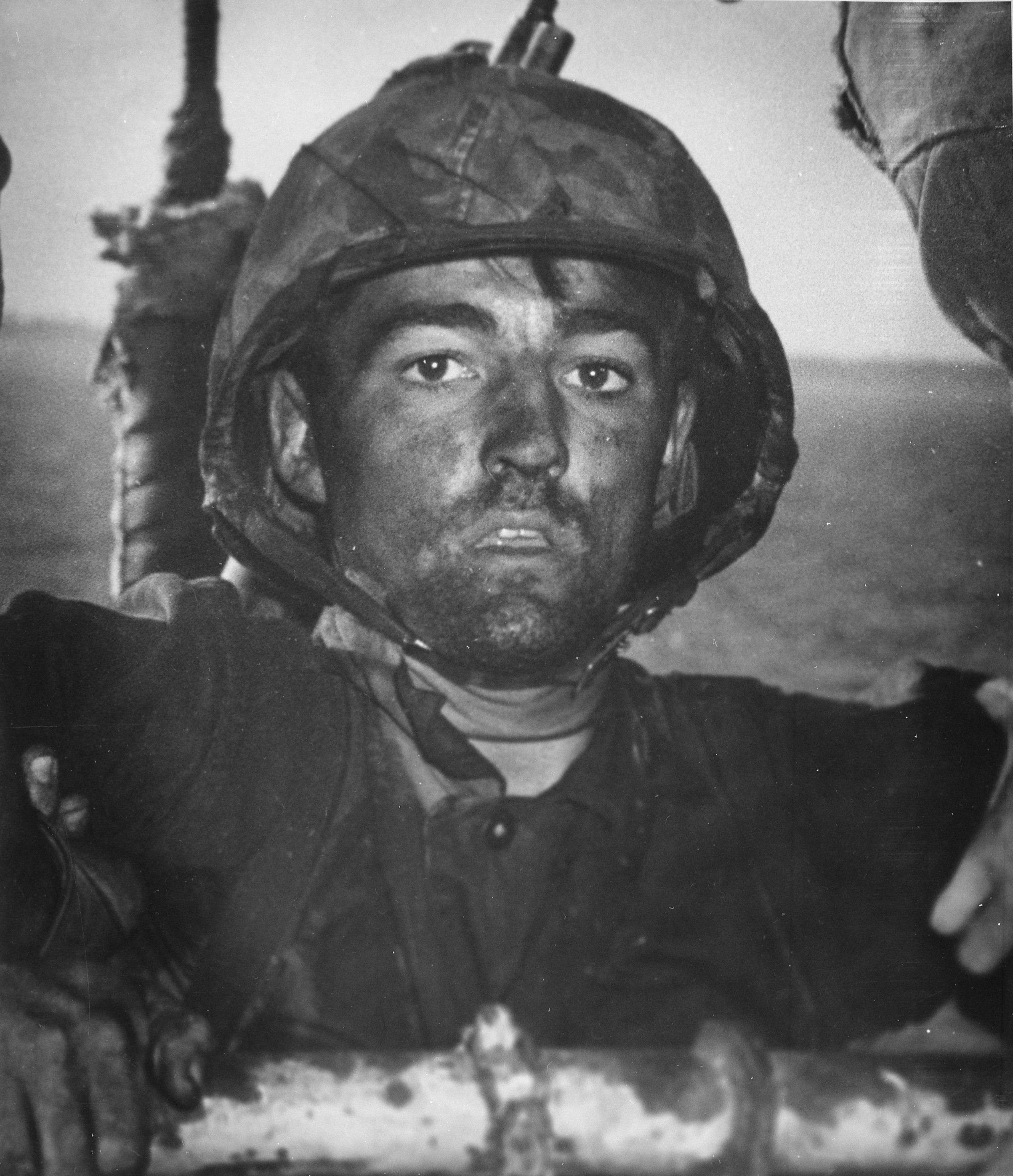 Titled: "Back to a Coast Guard assault transport comes this Marine after two days and nights of Hell on the beach of Eniwetok in the Marshall Islands. His face is grimey with coral dust but the light of battle stays in his eyes." February 1944. 26-G-3394. Pvt Theodore James Miller (12 February 1925 – 24 March 1944) from Minnesota returns to attack transport USS Arthur Middleton (APA-25) at 14:00 after two days of combat on Engebi, the first of the Eniwetok Atoll to be invaded by American forces. Most defenders were killed. Miller died in a fire-fight at Ebon Atoll a month later.[1]